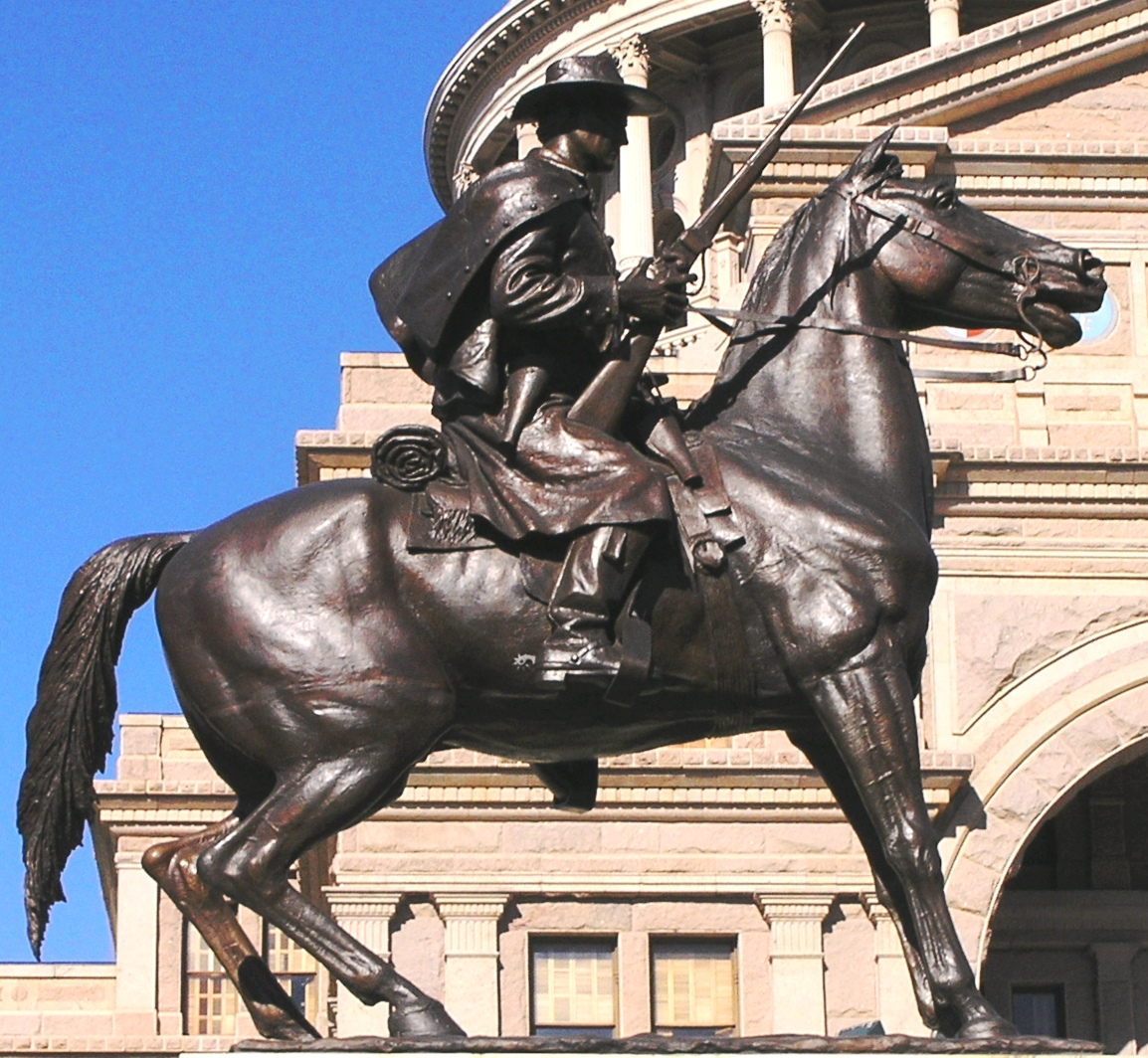 Image of Austin, Texas